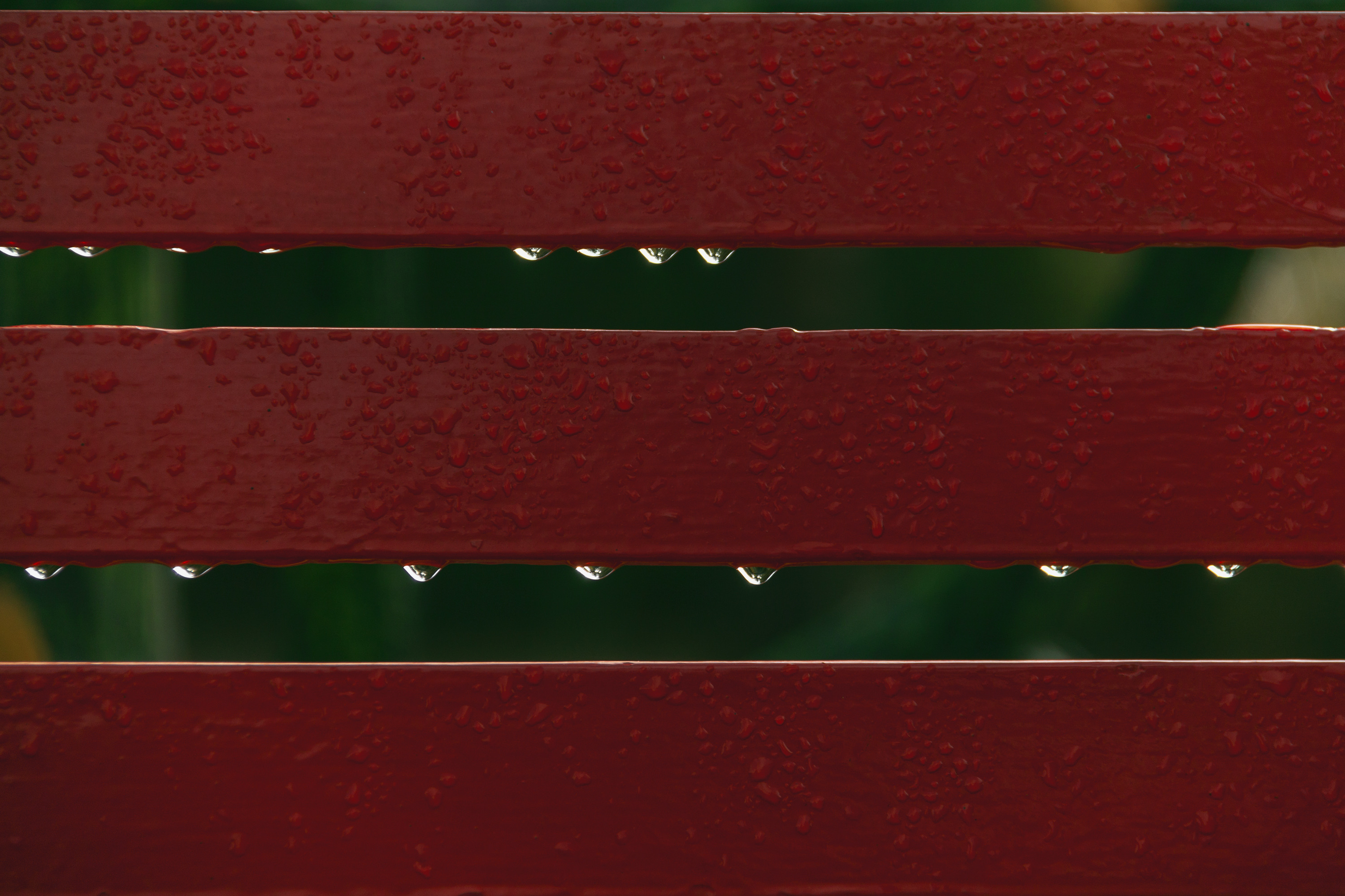 Qom is the seventh largest metropolis and also the seventh largest city in Iran.